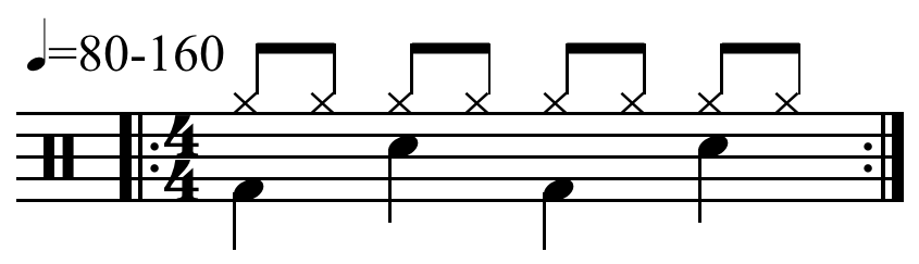 Created in Sibelius by User:Hyacinth from common knowledge. See: File:Characteristic rock drum pattern.mid Also characteristic funk drum pattern but with ride cymbal.[1] The "basic [rock] beat" may be notated using half notes on the bass drum and a quarter note ride cymbal pattern while "four to the floor"[2] features steady quarter notes on the bass drum.[2]. The first of the examples of, "commonly used rock beats", given features, "an eighth-note ride pattern," as the pattern notated above but riding the hi-hat.[3] "Basic" beats include four to the floor with quarter note hi-hat ride, described as appropriate for "hard rock", with eighth-note ride pattern appropriate for a "pop song", with swung eighths on the backbeat of the ride pattern for a "jazz feel", and second notated pattern above, descried as "basic 4/4 'beat'...[with] a sixteenth-note feel," with hi-hat ride.[4] Groove #1: "bass drum on beats 1 and 3 and snare drum on beats 2 and 4 of the measure...add eighth notes on the hi-hat".[5] "Straight blues/Rock groove" "Blues may also be played with a straight feel....The tempo of straight Blues grooves covers a large range of quarter note = 80-160 bpm."[6] ↑ Bolton, Ross (2001). Funk Guitar: The Essential Guide, p.5. ISBN 0634011685. ↑ a b Schroedl, Scott (2001). Play Drums Today!, p.15. Hal Leonard. ISBN 0-634-02185-0. ↑ Morton, James (1990). You Can Teach Yourself Drums, p.32. Mel Bay. ISBN 1-56222-033-0. ↑ Mattingly, Rick (2006). All About Drums, p.42. Hal Leonard. ISBN 1-4234-0818-7. ↑ Peckman, Jonathan (2007). Picture Yourself Drumming, p.50. ISBN 1598633309. ↑ Berry, Mick and Gianni, Jason (2003). The Drummer's Bible, p.36. ISBN 1884365329.